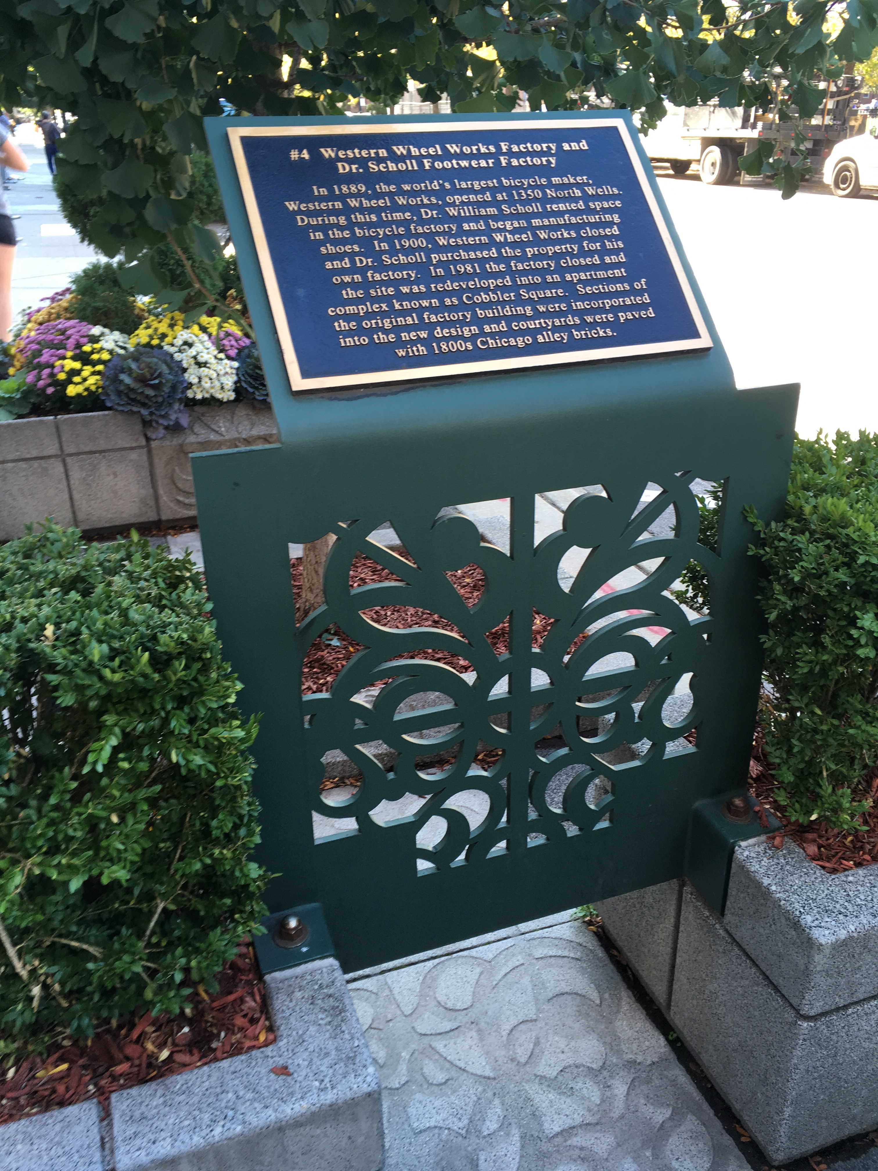 Chicago in 2017